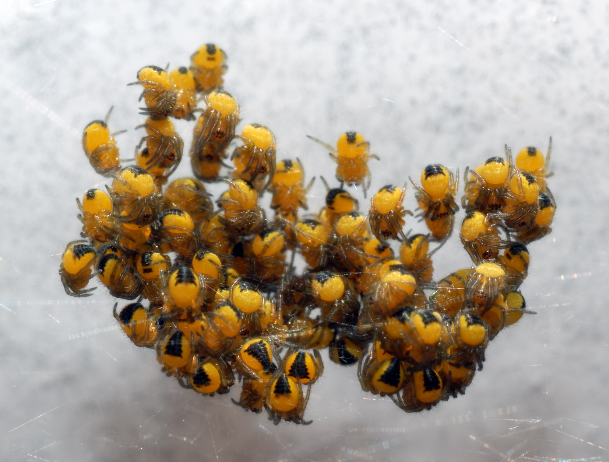 This image shows young European garden spiders (Araneus diadematus). Each spider has a size of about 1 mm.